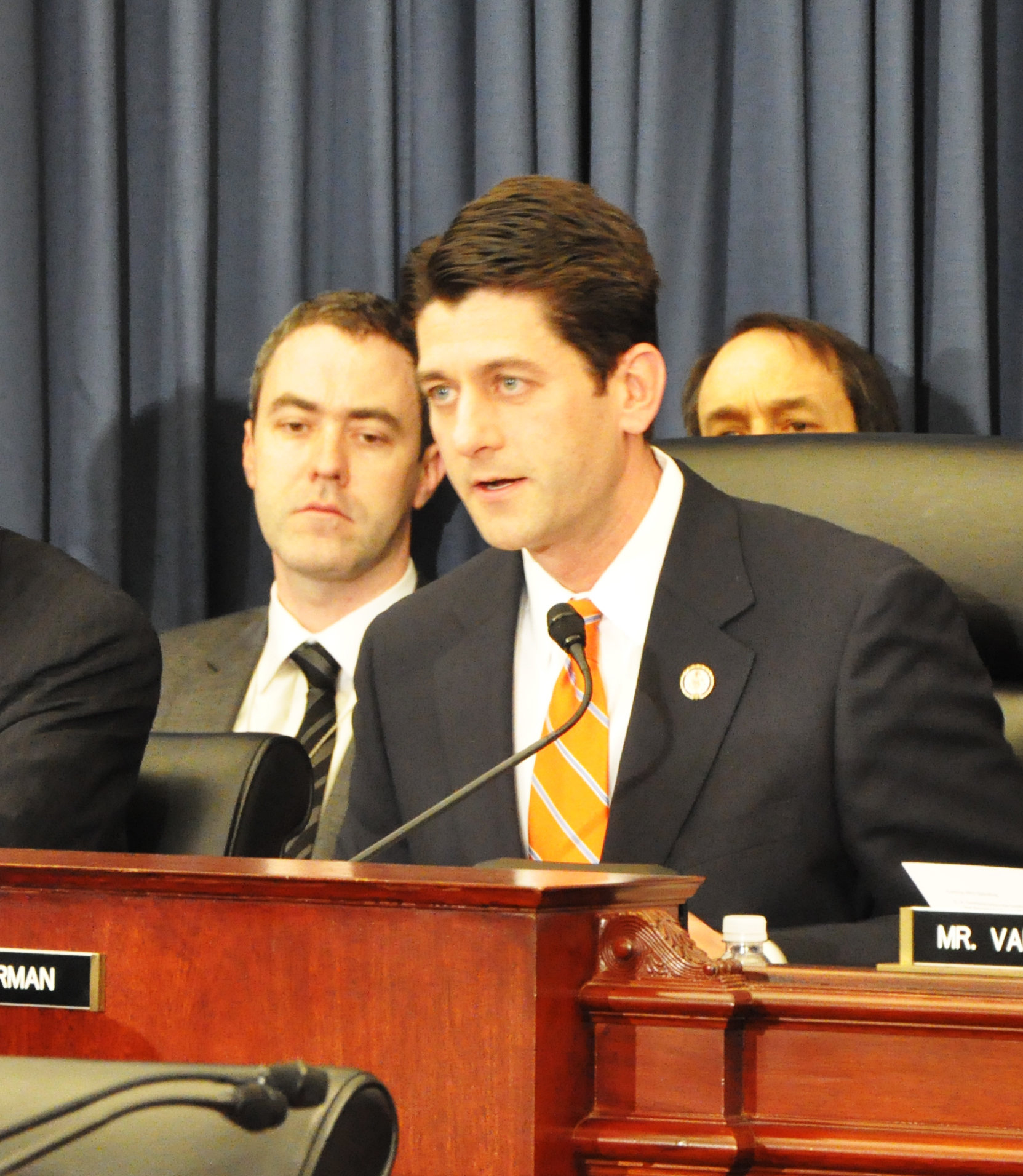 House Budget Committee Chairman Paul Ryan making the initial remarks at Ben Bernanke's presentation on the State of the Economy